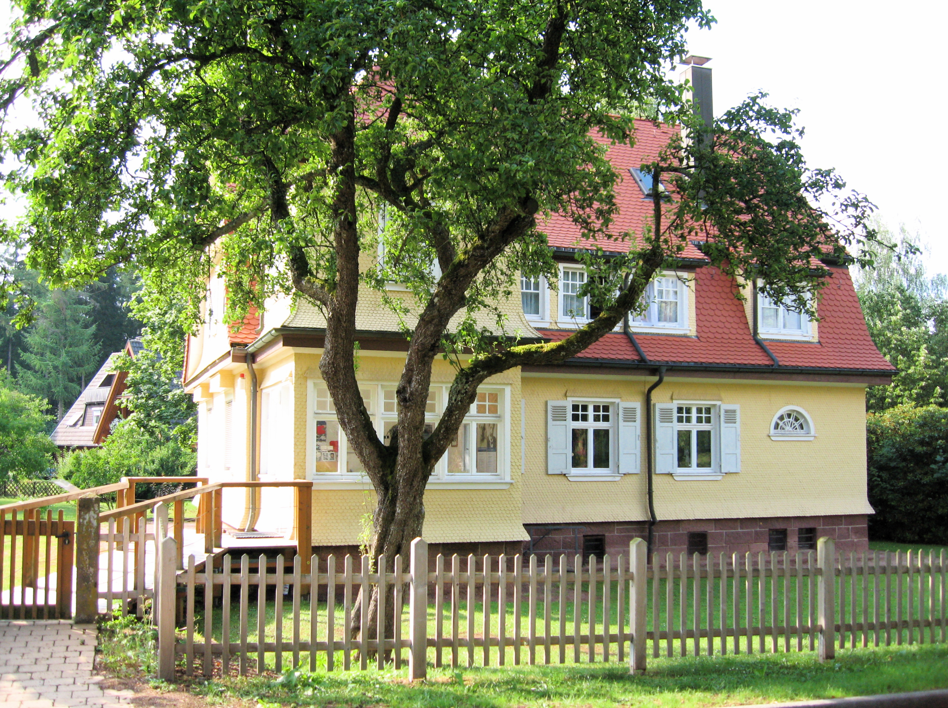 The Albert Schweitzer House in Königsfeld (Germany)